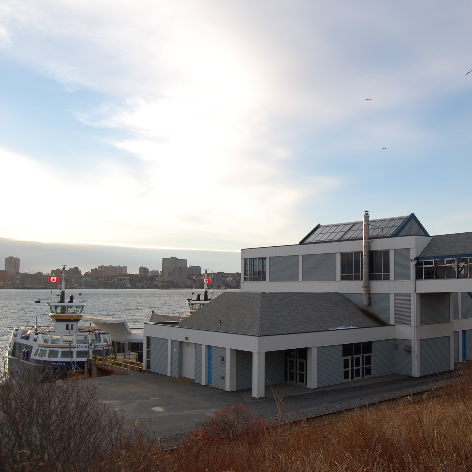 Ferry terminal, Woodside neighbourhood, Dartmouth, NS